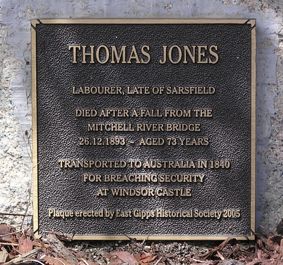 Memorial plaque erected to the memory of Edward Jones located at the Bairnsdale Cemetery